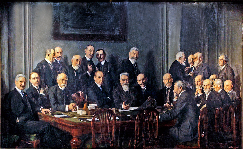 Le comité des Forges de France : la commission de direction en 1914. Premier rang, de gauche à droite : Louis Mercier, François de Wendel, Henry Darcy, Eugène Schneider, Florent Guillain, Robert Pinot, comte Fernand de Saintignon, Léon Lévy, Henri de Freycinet, Camille Cavallier, Émile Ferry, Georges Claudinon. Deuxième rang : Armand Résimont, Ernest Lesaffre, Claudius Magnin, Léopold Pralon, baron Xavier Reille, Alexandre Dreux, Charles Boutmy, Léon de Nervo, Daniel Bethmont, Edmond Capitain-Geny, François Dujardin-Beaumetz. Peinture d'Adolphe Déchenaud, au siège de Schneider, rue de Madrid, Paris.